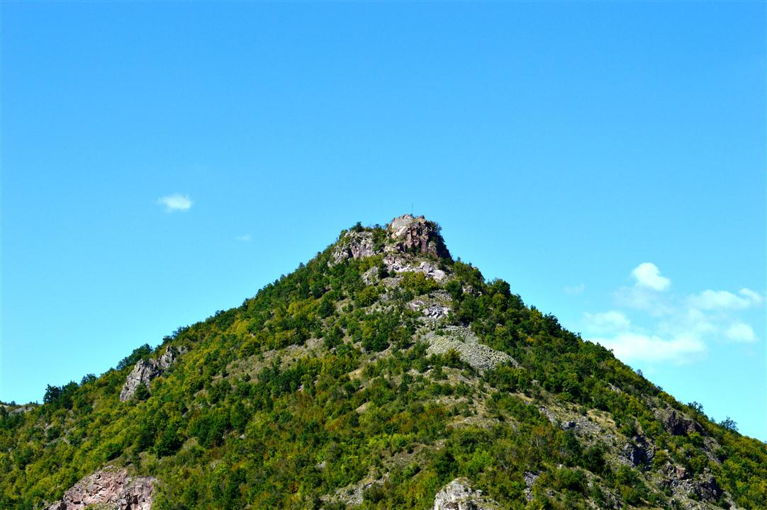 Raska Municipality - Brvenik